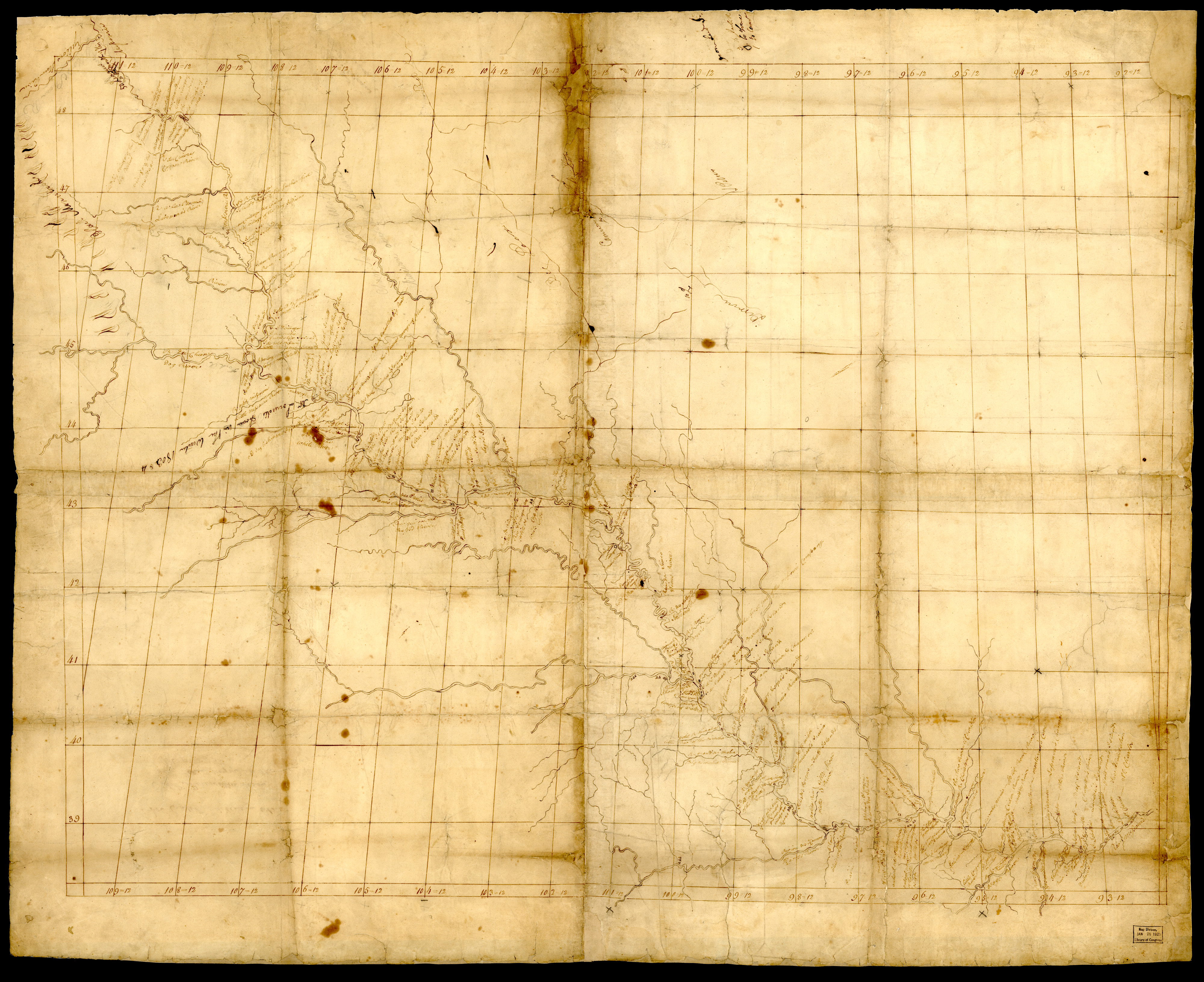 Map of Missouri River and Vicinity from St. Charles to the Mandan Villages of North Dakota made by James Mackay (1759-1822) with the assistance of John Evans (1770-1799) Source: scaled down version created by User:PDD based on Original: MrSID format image, 12053x9835 pixels This version: 4000x3264 pixel scaledown, level-adjusted public domain